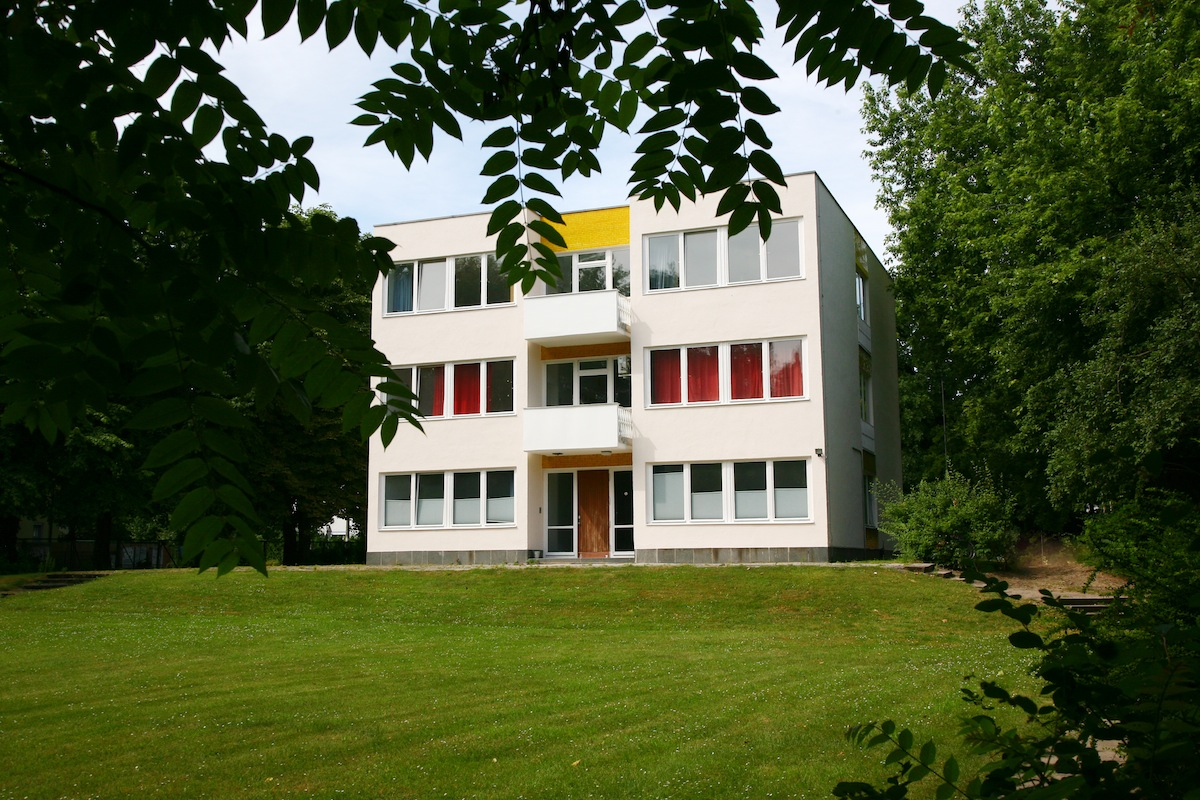 This photo depicts a dorm on the residential campus of Bard College Berlin.